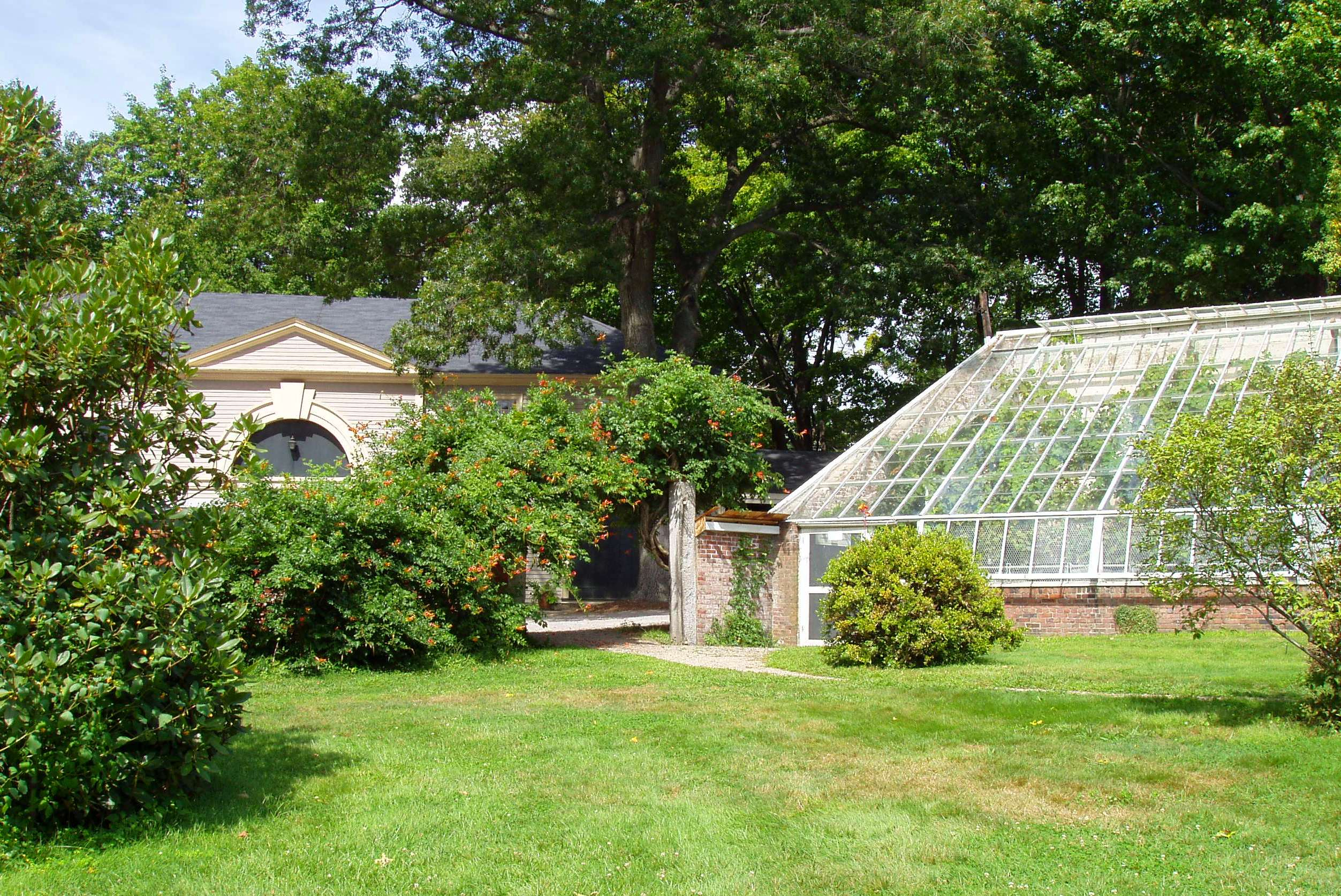 Lyman Estate, Waltham, Massachusetts - view of carriage house and a greenhouse. Photograph taken by me, August 2005.